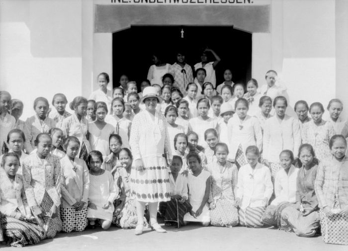 Group portrait of indigenous trainee teachers in front of their college